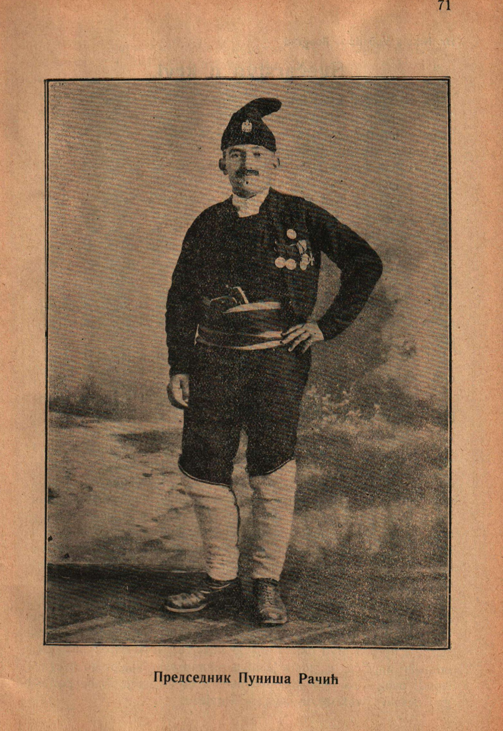 Voyvoda Vuk Popovich. 1927 calendar.